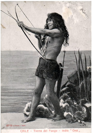 The Selk'nam, also known as the Ona, lived in the Tierra del Fuego islands, in southern Chile and Argentina. They were one of the last aboriginal groups in South America to be reached by Westerners, in the late 19th century, when the Chilean and Argentine governments began efforts to explore and integrate Tierra del Fuego (literally, the "land of fire" based on early European explorers observing Selk'nam smoke from their bonfires).